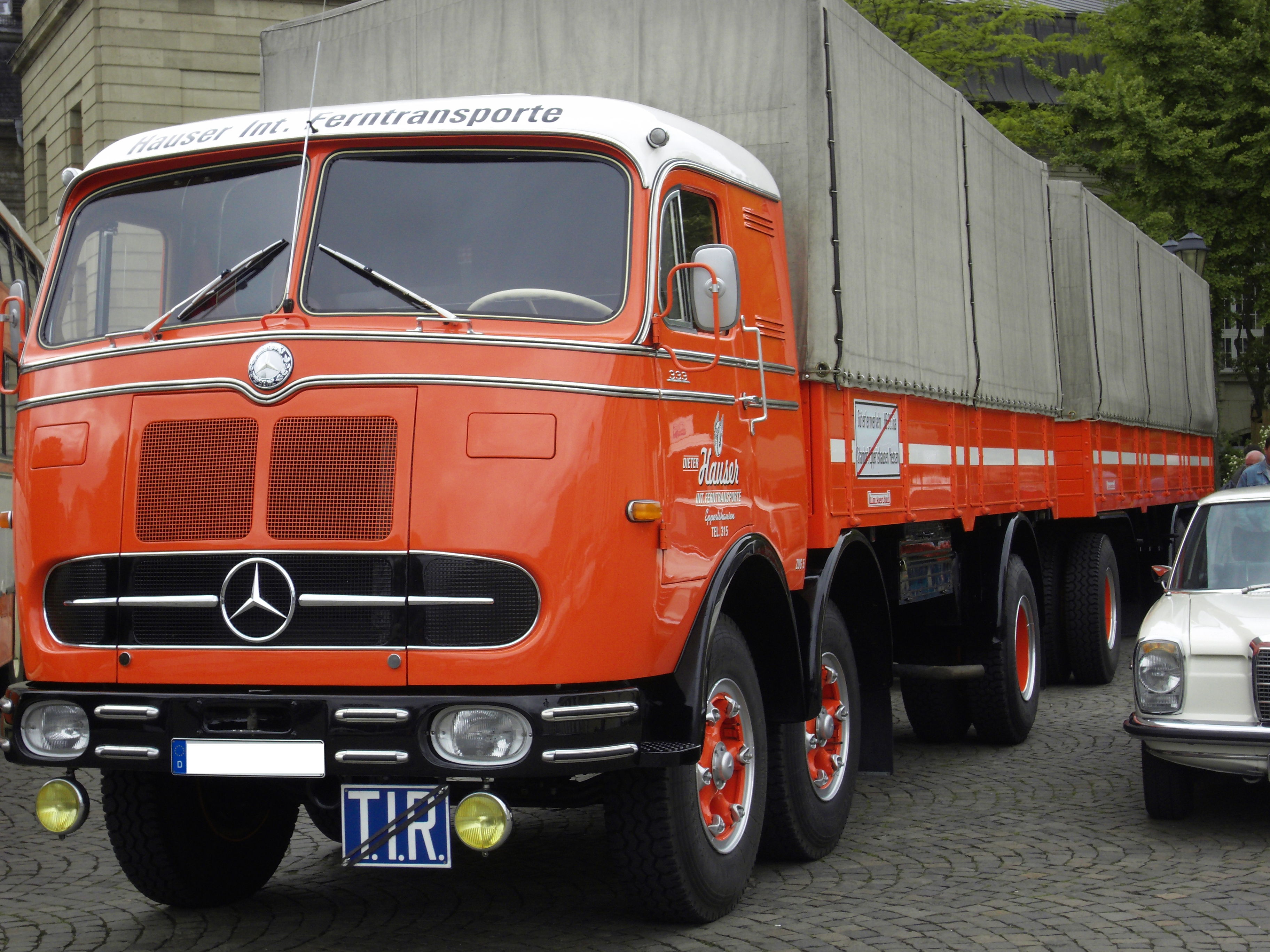 Truck Mercedes oldtimer with two front axles